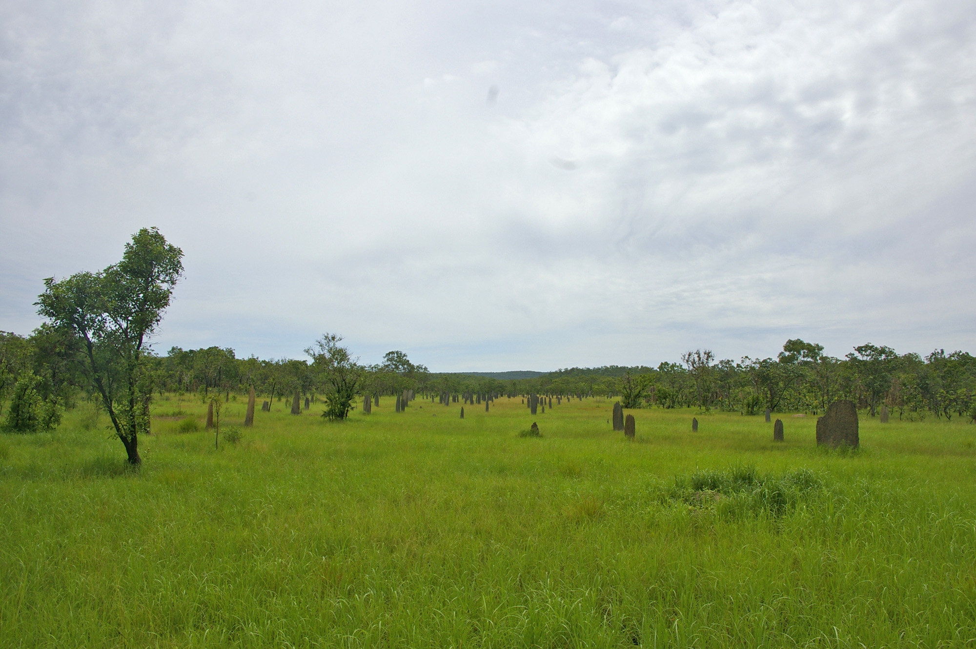 Magnetic Termite Mounds, Litchfield National Park. Northern Territory